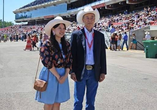 Princess Ayako and Kunihiko Tanabe, Consul-General in Calgary, attended Calgary Stampede in Calgary City, Alberta Province on July, 2017.